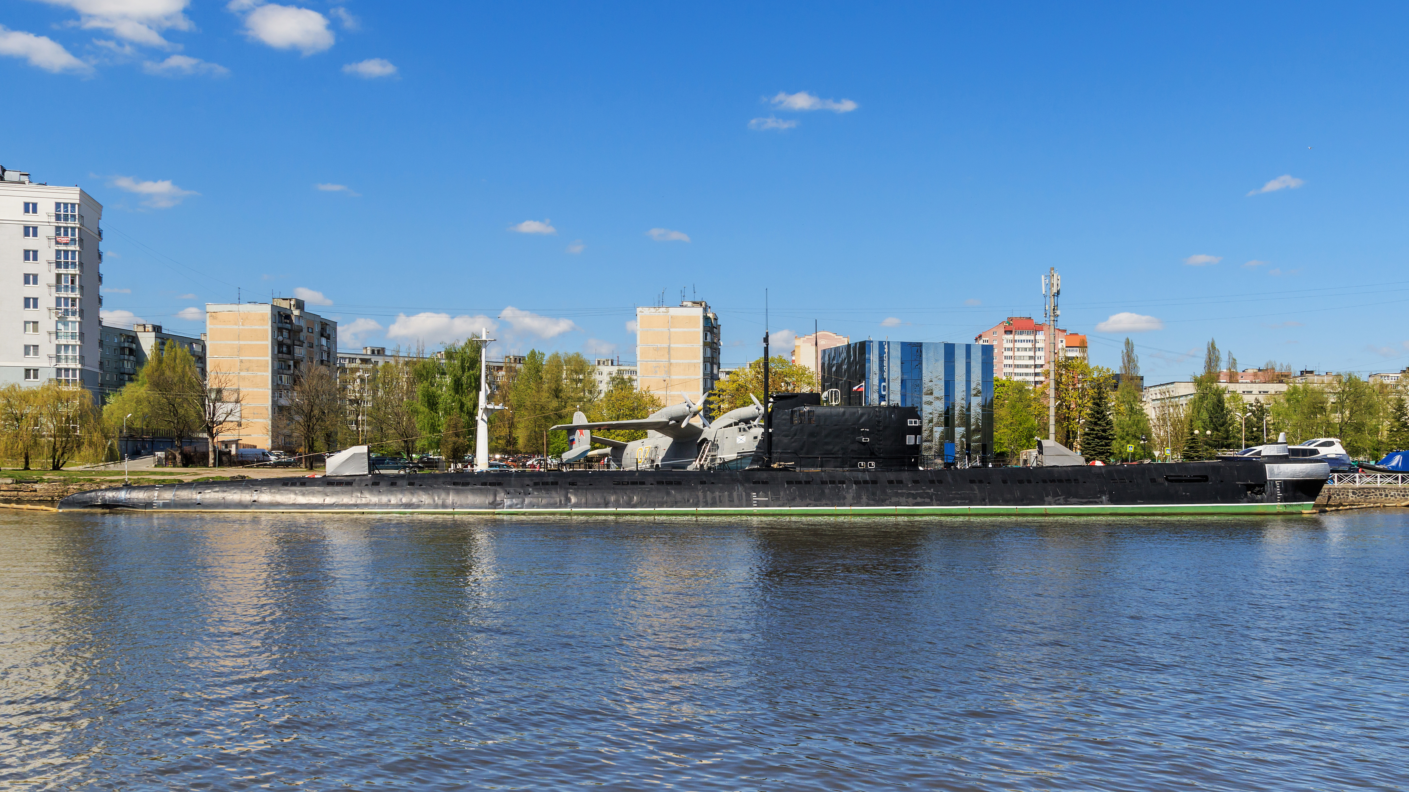 B-413 submarine at the World Ocean Museum in Kaliningrad formerly Königsberg, Kaliningrad Oblast (Russia).